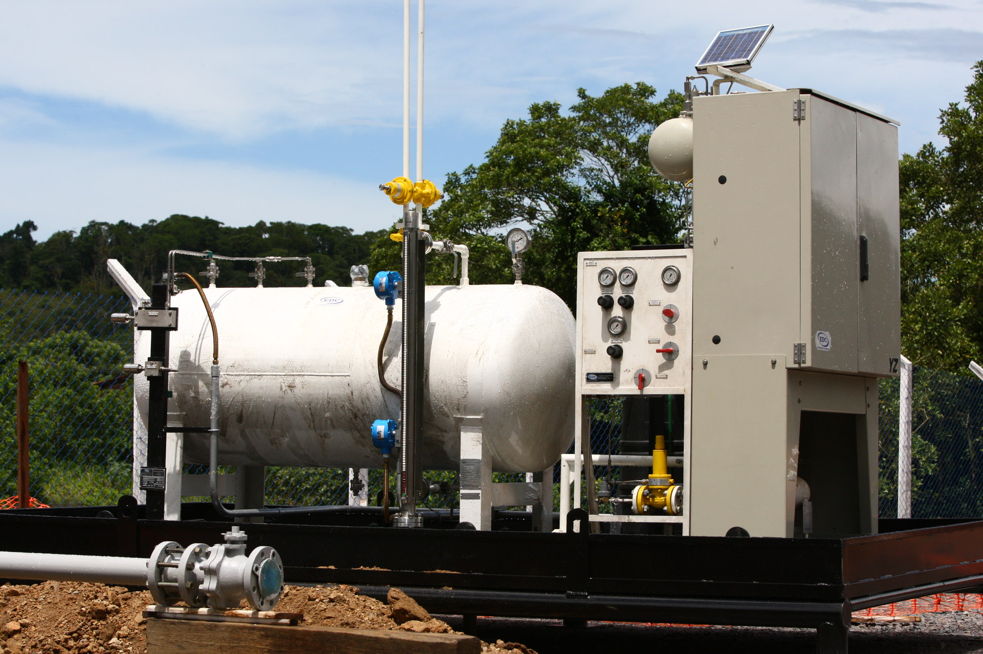 GASENE in Itabuna